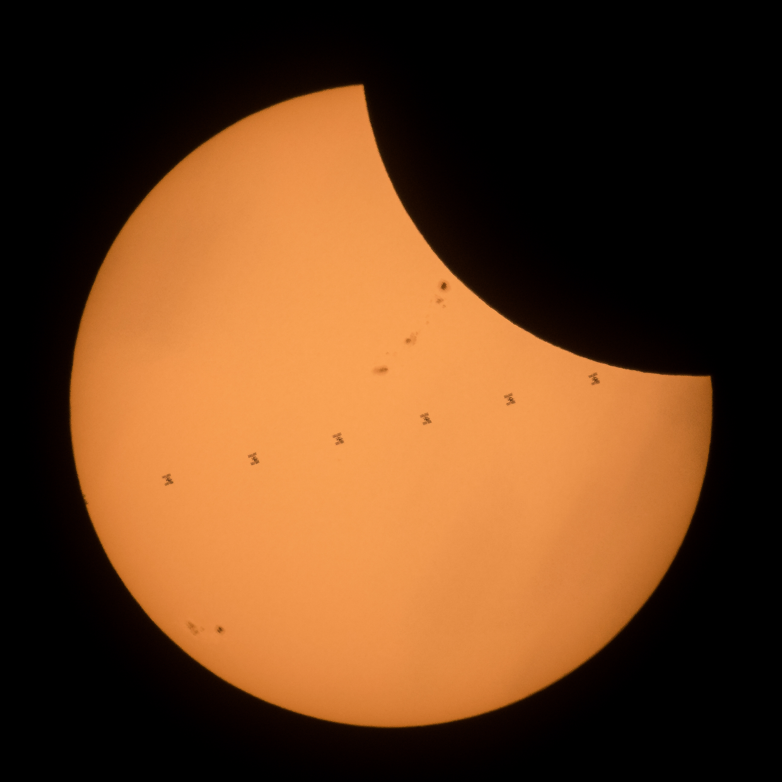 This composite image, made from seven frames, shows the International Space Station, with a crew of six onboard, as it transits the Sun at roughly five miles per second during a partial solar eclipse, Monday, August 21, 2017 near Banner, Wyoming, USA. Onboard as part of Expedition 52 are: NASA astronauts Peggy Whitson, Jack Fischer, and Randy Bresnik; Russian cosmonauts Fyodor Yurchikhin and Sergey Ryazanskiy; and ESA (European Space Agency) astronaut Paolo Nespoli. A total solar eclipse swept across a narrow portion of the contiguous United States from Lincoln Beach, Oregon to Charleston, South Carolina. A partial solar eclipse was visible across the entire North American continent along with parts of South America, Africa, and Europe.